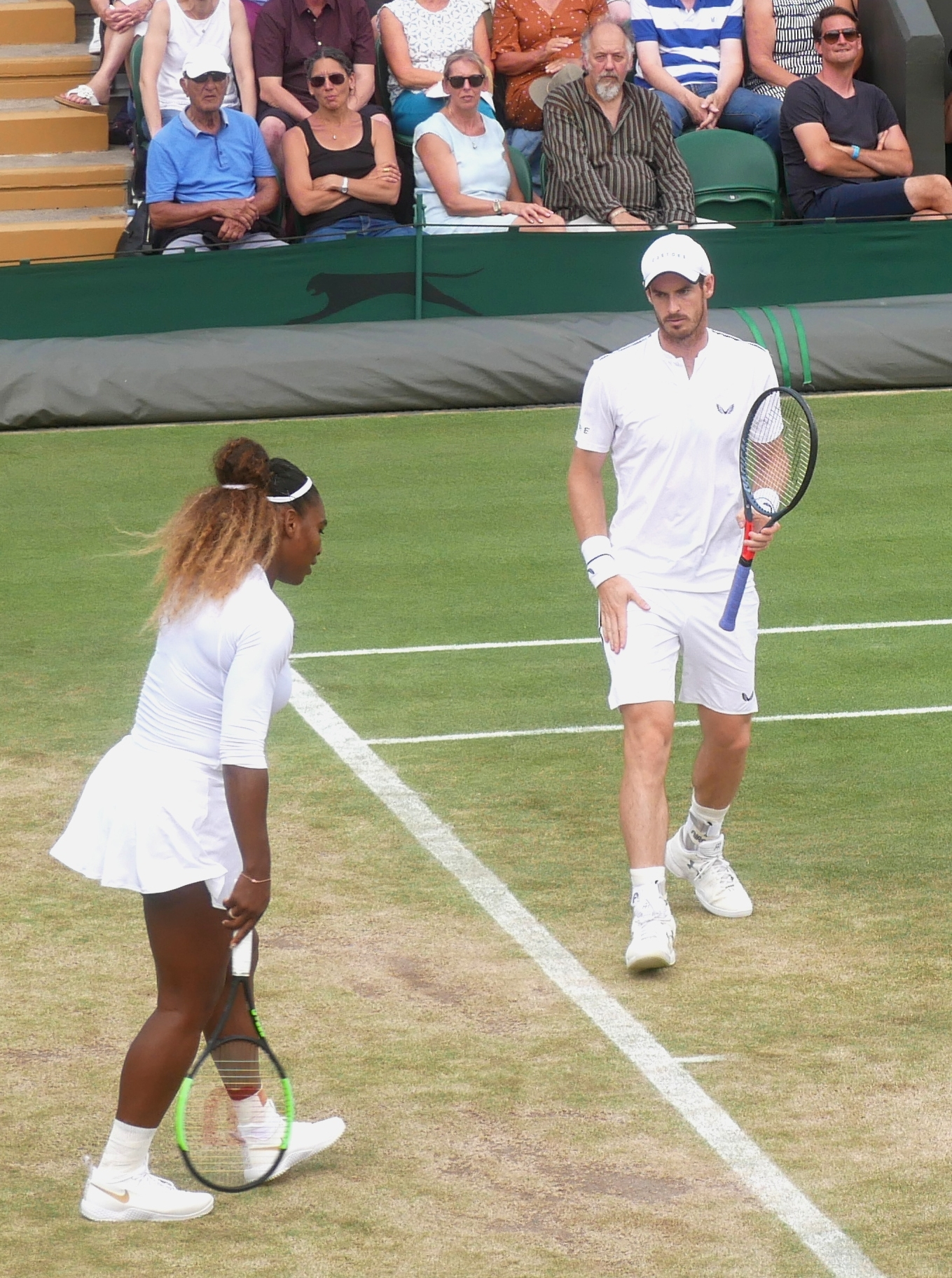 Andy Murray and Serena Williams play mixed doubles at Wimbledon July 2019